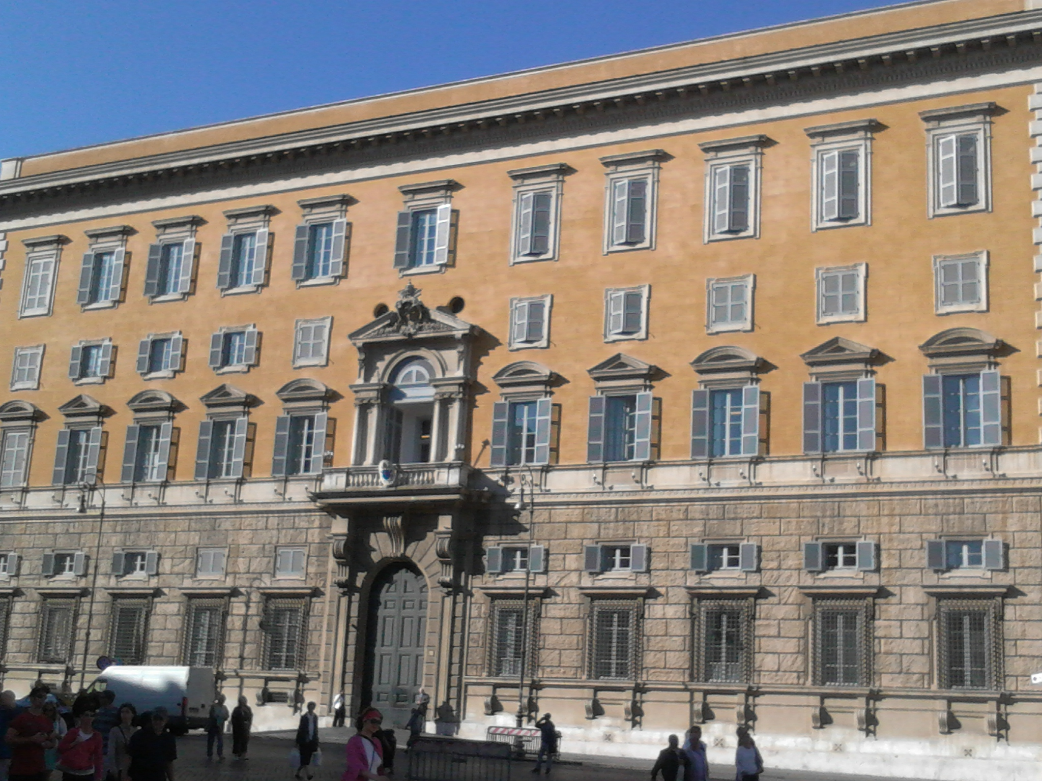 lateranolllllll